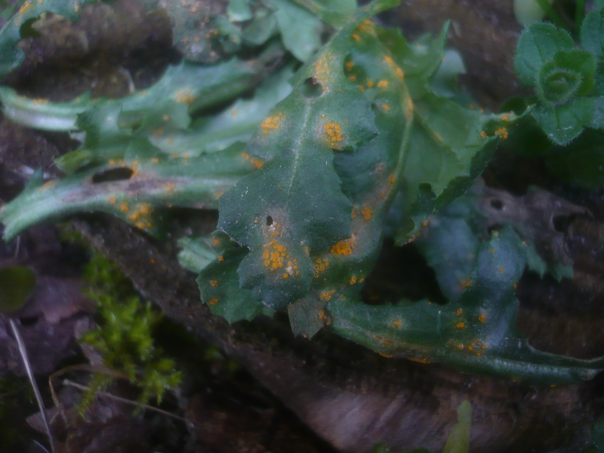 Puccinia lagenophorae Cooke Image location: Schubertstraße, Mattersburg, Bezirk Mattersburg, Burgenland, Austria Recognized by sight: on Senecio vulgaris Used references For more information about this, see the observation page at Mushroom Observer.